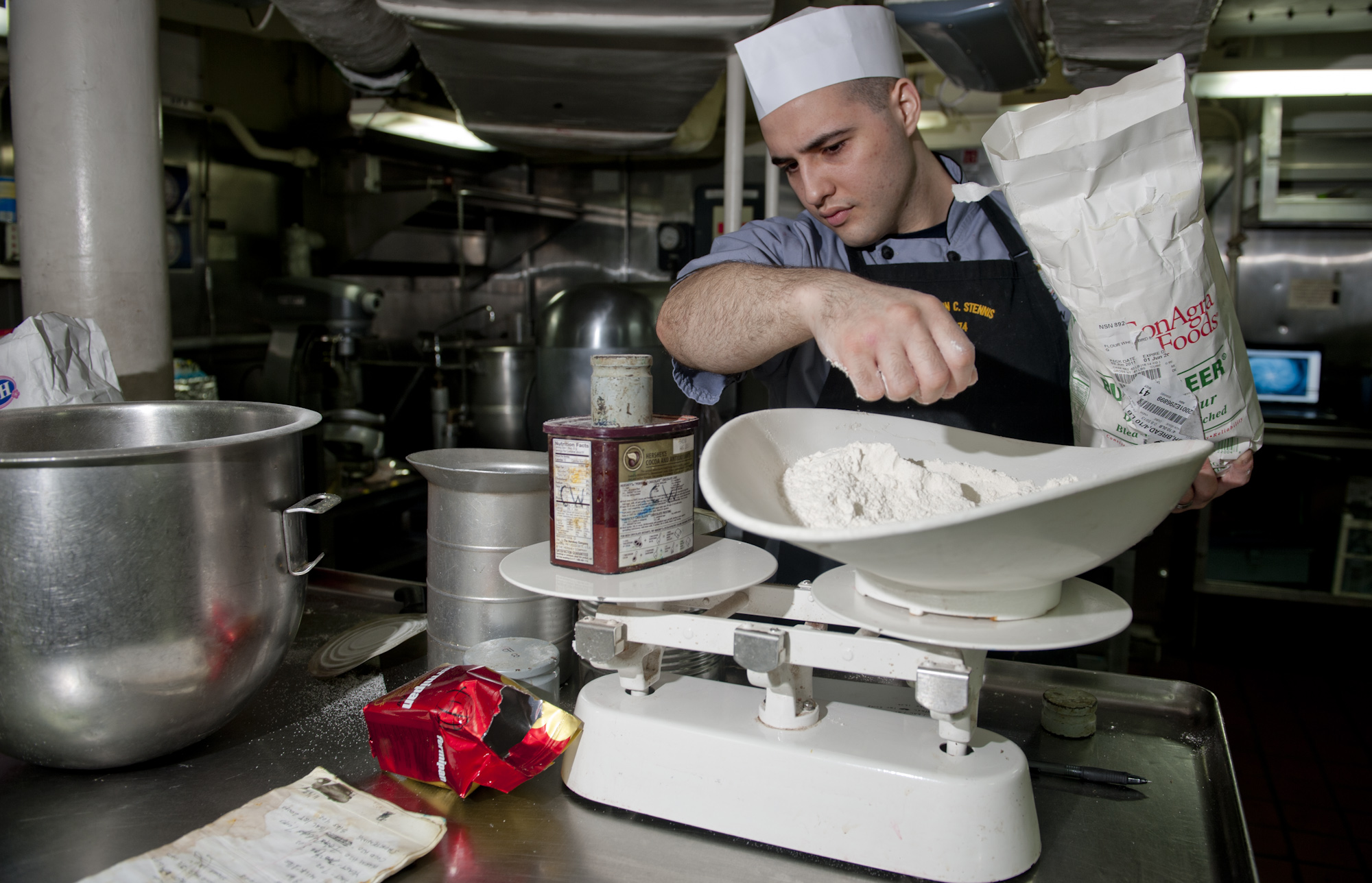 ARABIAN GULF (Dec. 20, 2011) Culinary Specialist Seaman Matthew Ryback measures flour in preparation for the Christmas meal in the bake shop aboard the Nimitz-class aircraft carrier USS John C. Stennis (CVN 74). John C. Stennis is deployed to the U.S. 5th Fleet area of responsibility supporting Operation Enduring Freedom. (U.S. Navy photo by Mass Communication Specialist 3rd Class Kenneth Abbate/Released)